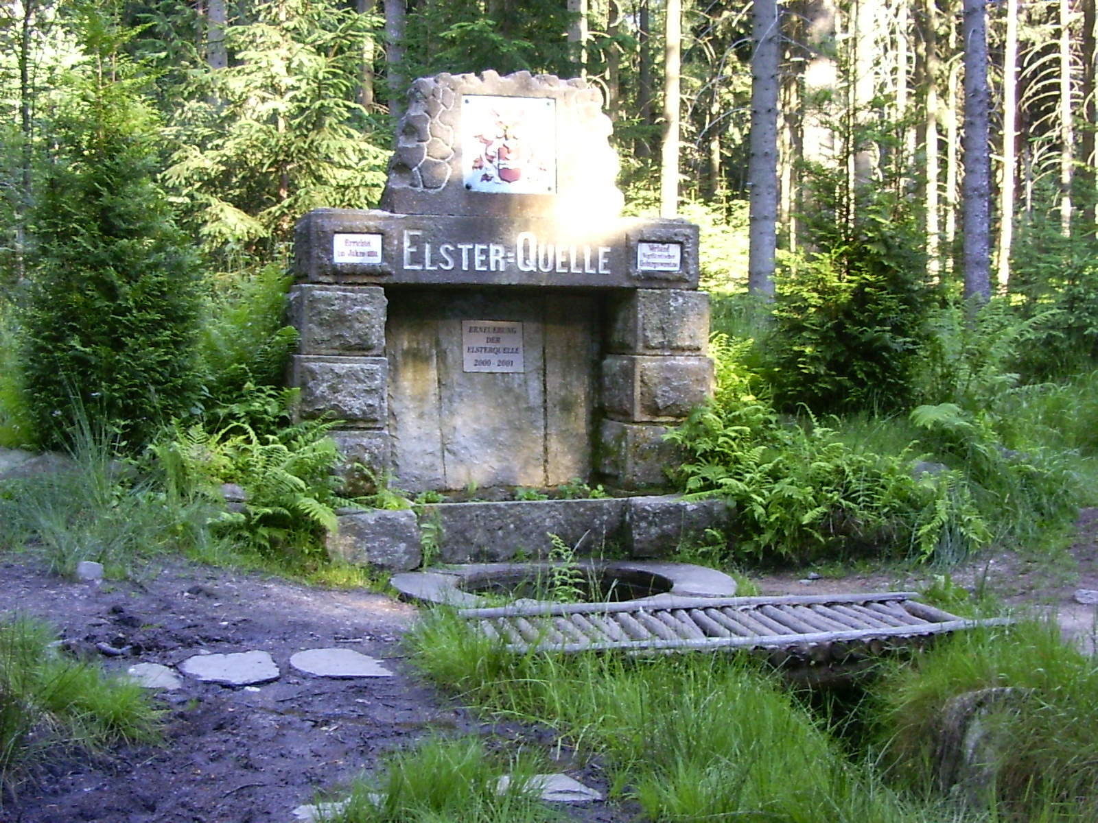 Source of the White Elster